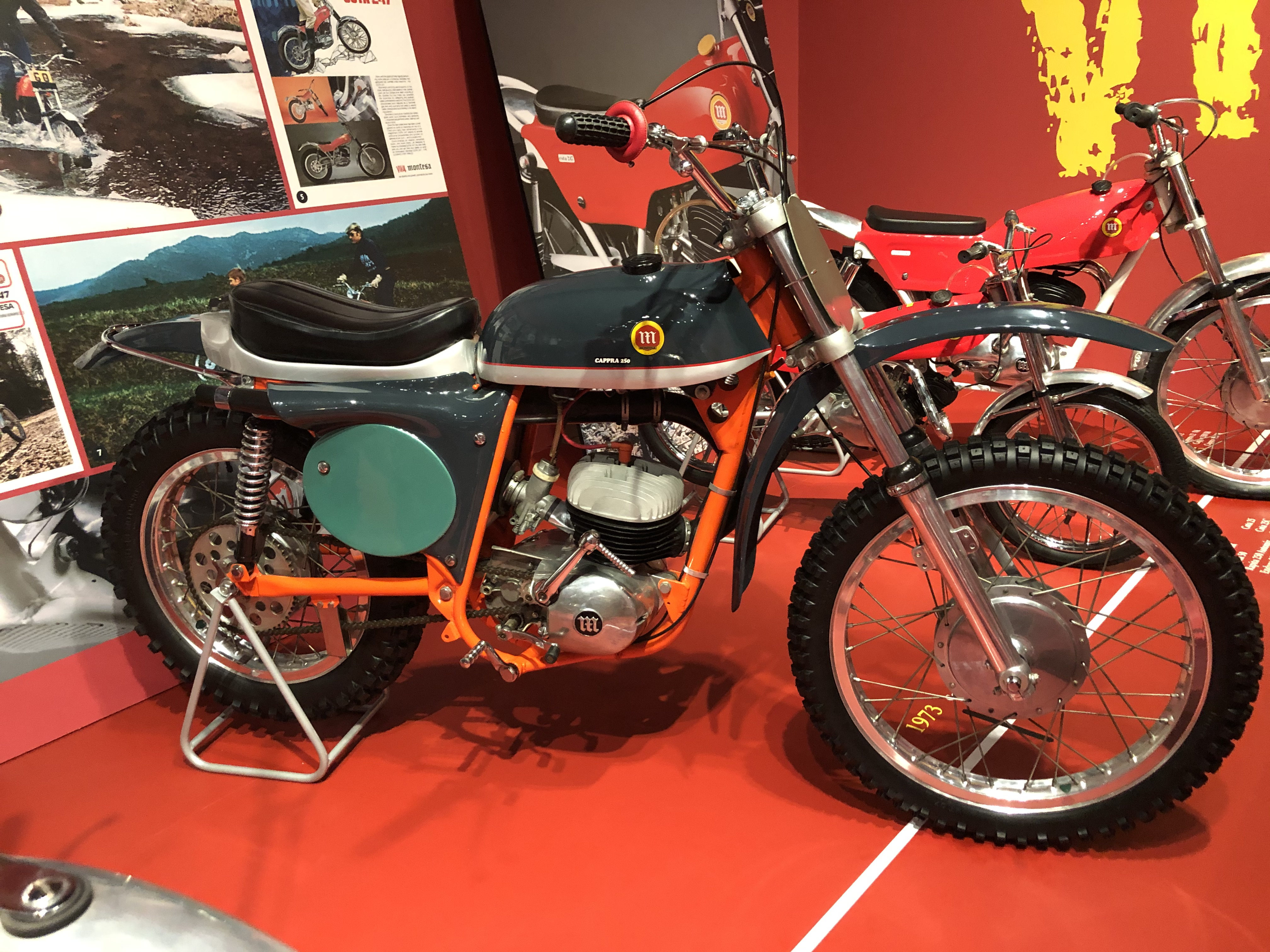 Montesa Cappra 250 (1967), Mod. 33M, 247.6 cc